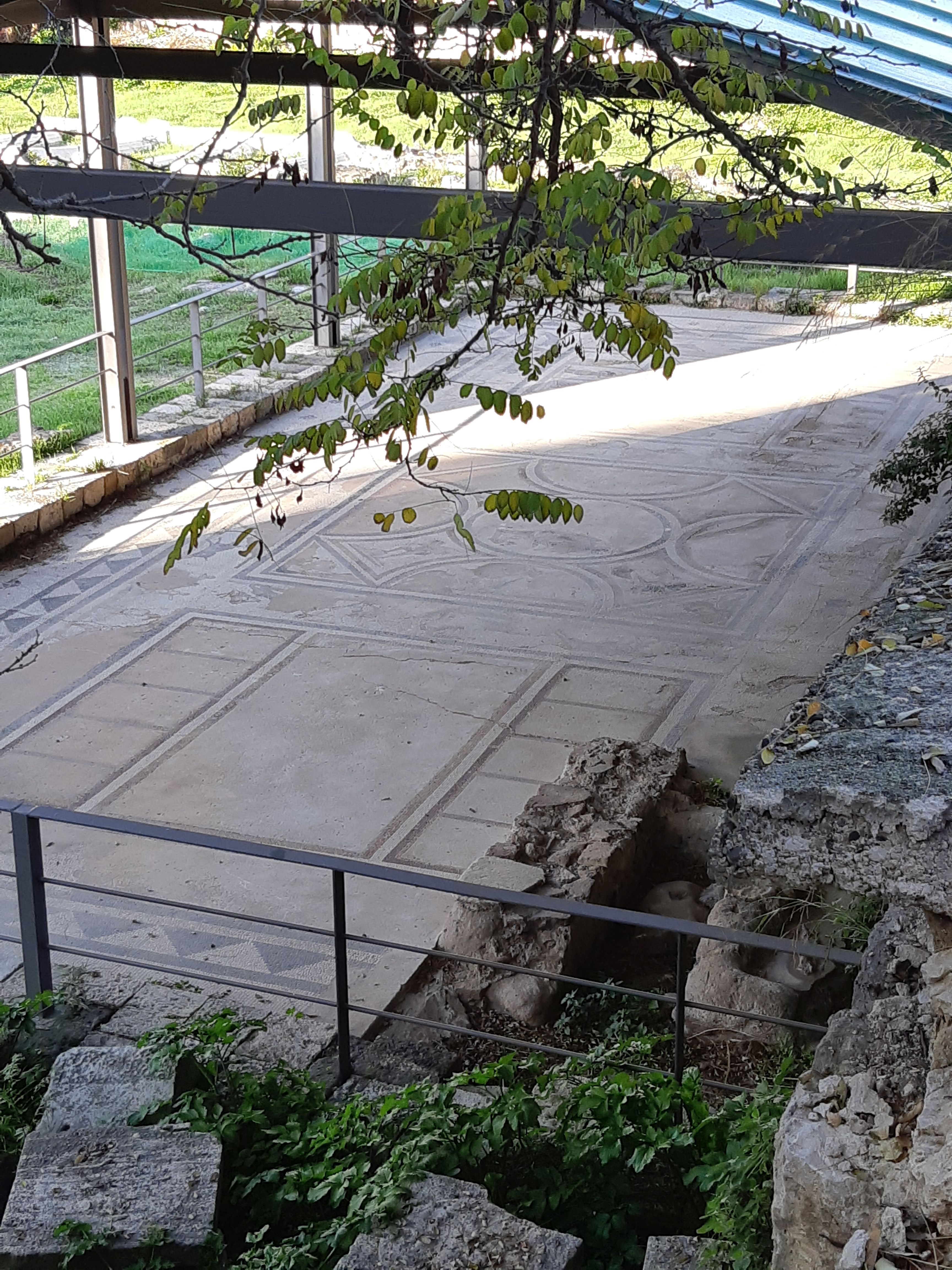 Archaeological quater "West" (Western Archaeological Site) in the city of Kos on the Greek island of Kos. Former medieval quarter destroyed in an earthquake in 1933. Among them were historical finds from the Hellenistic and Roman times. House of "Europe".